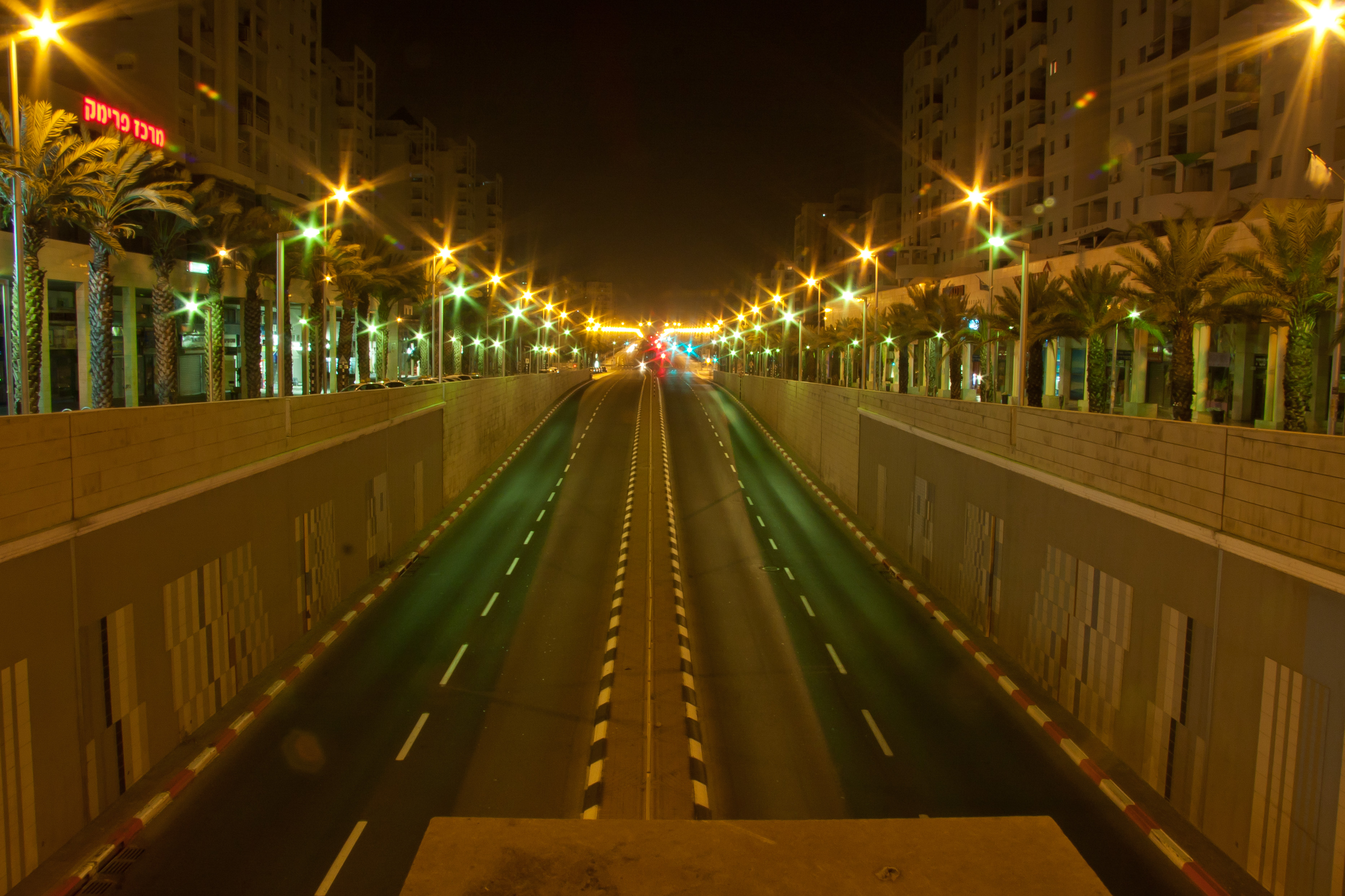 A nightscape of on the Ashdod's main streets, Menachem Begin blvd. shot southwards